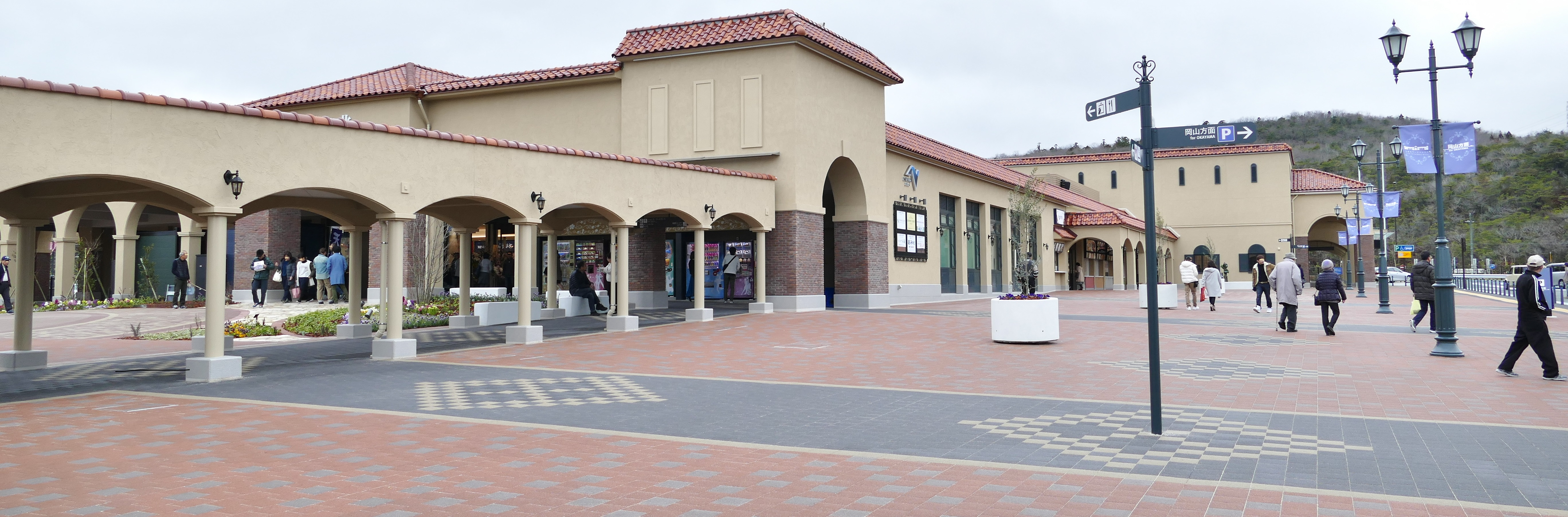 Takarazuka-Kita Service Area for Okayama,Hyogo prefecture,Japan